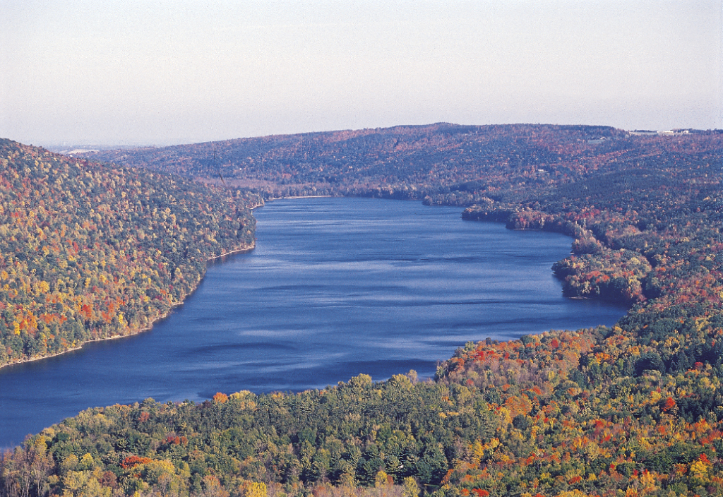 Photographed from the air, a fall shot of Canadice Lake in the Finger Lakes.